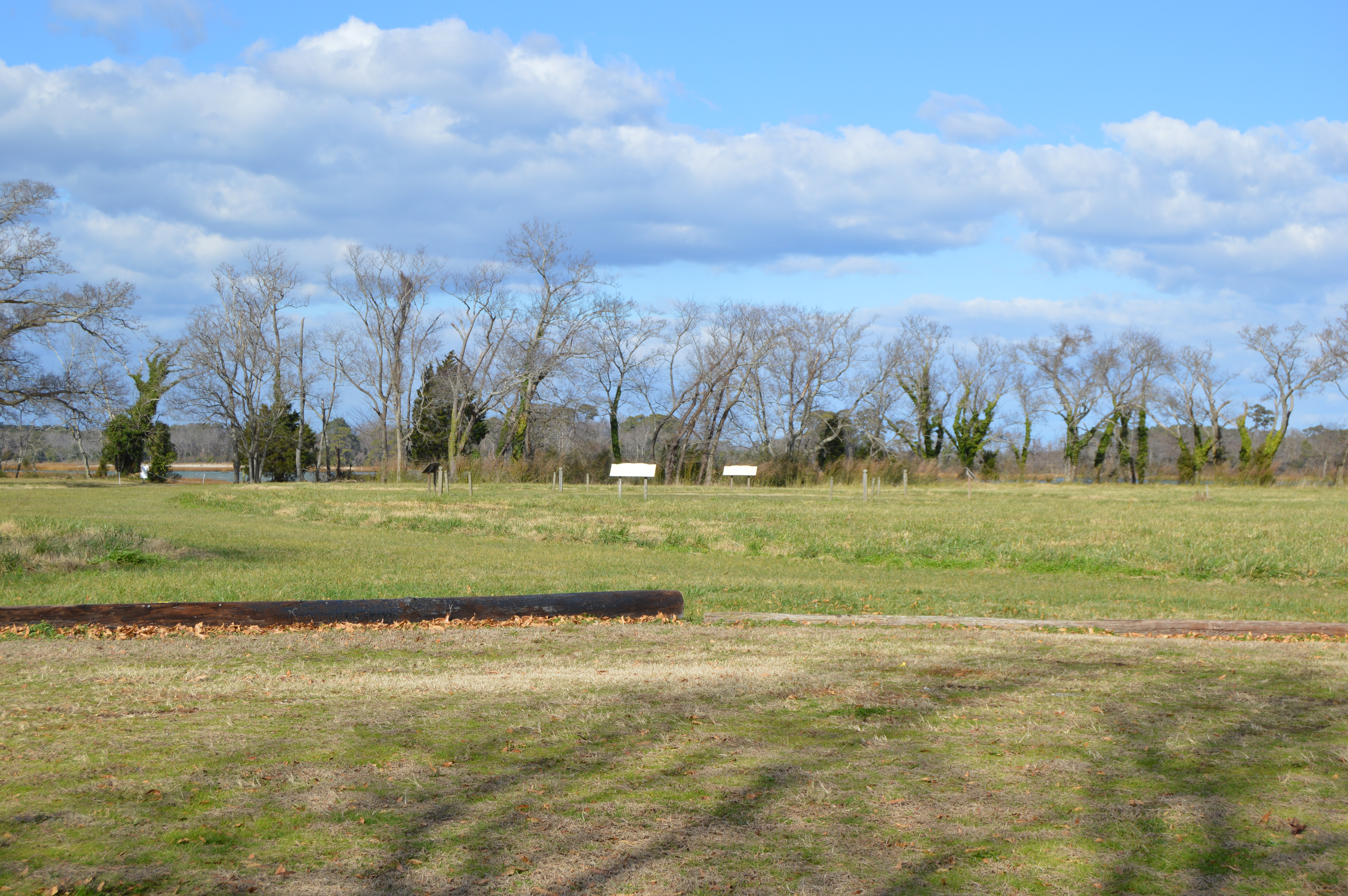 Overview of the Arlington Archeological Site, located on Arlington Chase Road south of Cape Charles in Northampton County, Virginia, United States. The site of the first plantation on the Eastern Shore of Virginia, it is an archaeological site and listed on the National Register of Historic Places.